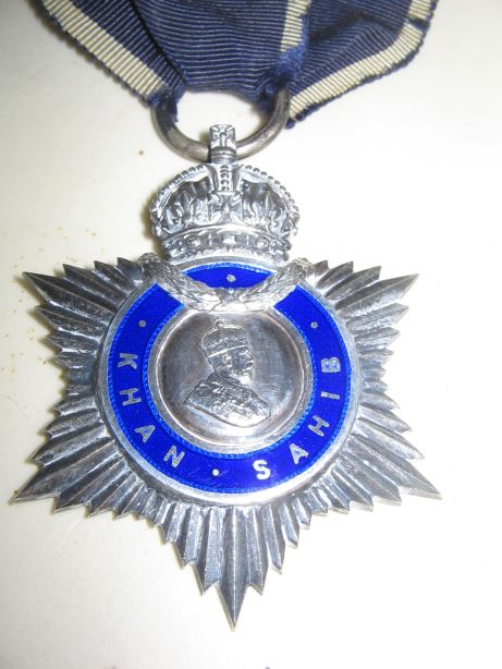 The Khan Sahib Medal, in this specific case as awarded to Dossabhoy Muncherji Raja on January 2nd, 1933. Photograph taken and uploaded by Ruzbeh Raja (User:Ruzbehraja). The title of Khan Sahib was also conferred as a SANAD